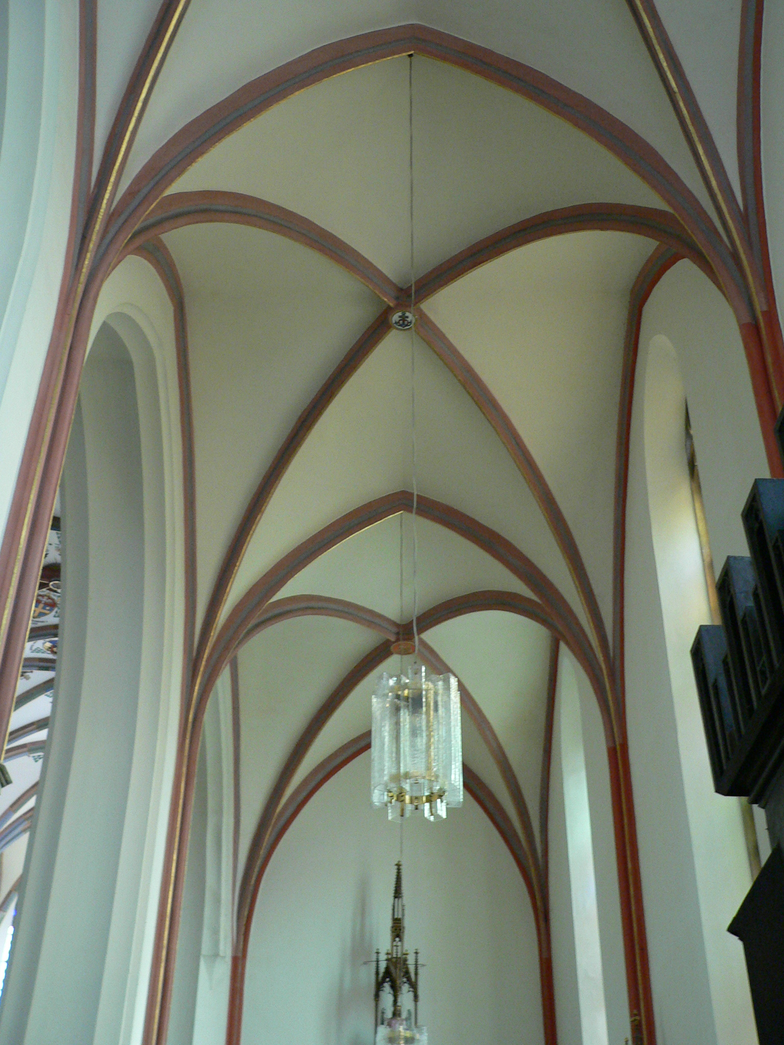 ribs of Cathedral of the Holly Spirit